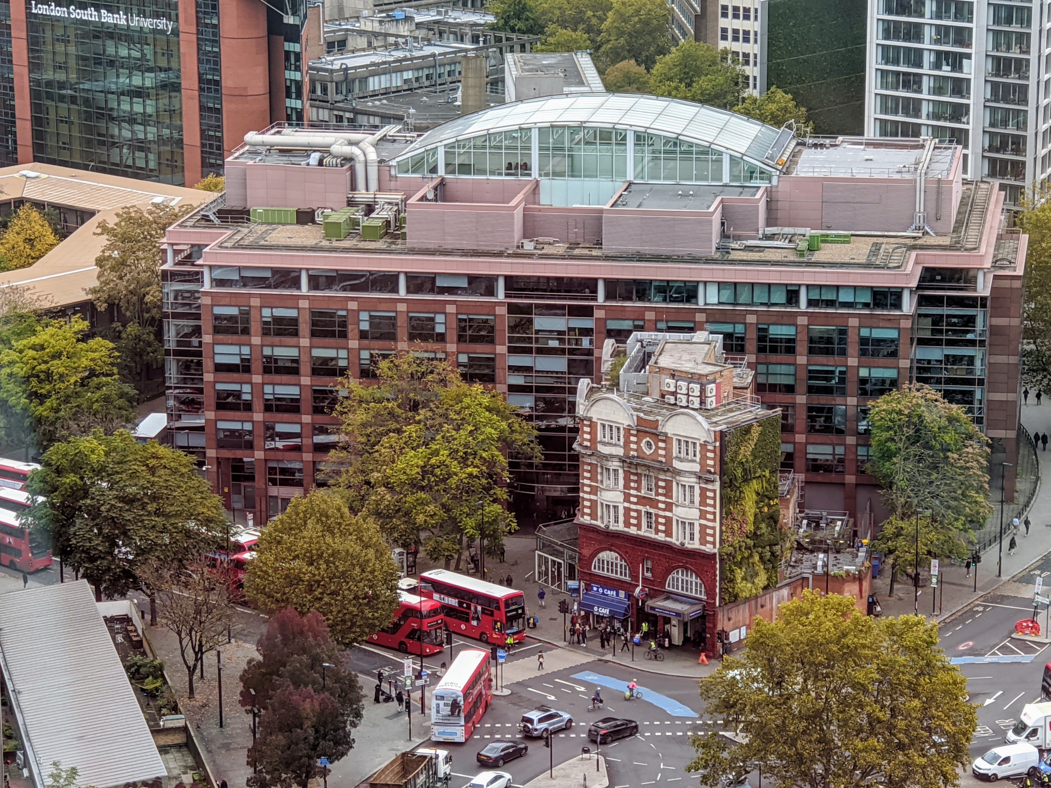 Office building Skipton House, Elephant & Castle, London, UK viewed looking north, on 25th October 2019. Bakerloo line London Underground station building in front, with green living wall.